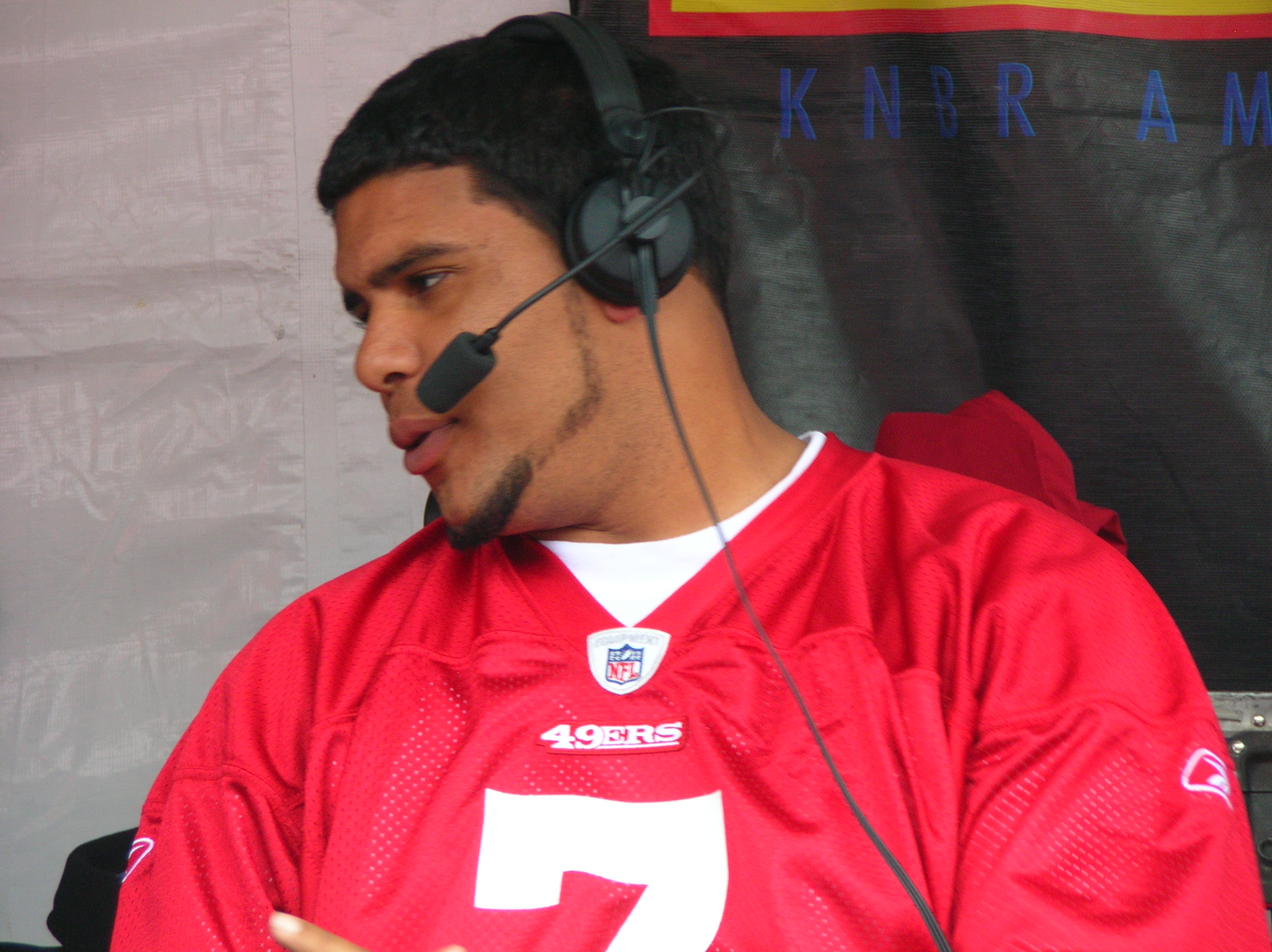 San Francisco 49ers quarterback Nate Davis is interviewed by KNBR 680 AM at the San Francisco 49ers Family Day 2009 at Candlestick Park.